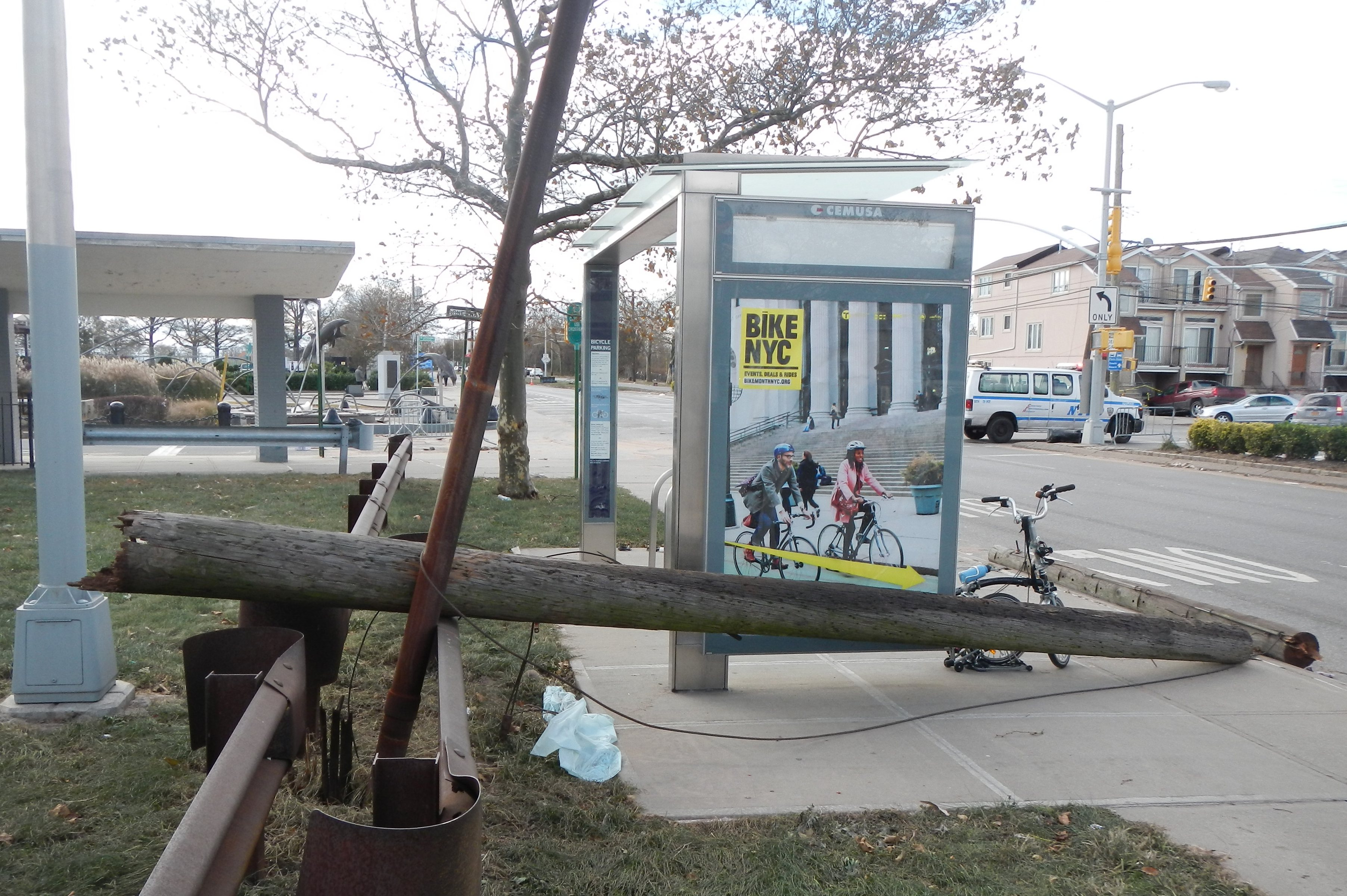 Looking southwest beside Capodanno Blvd at a smashed utility pole.